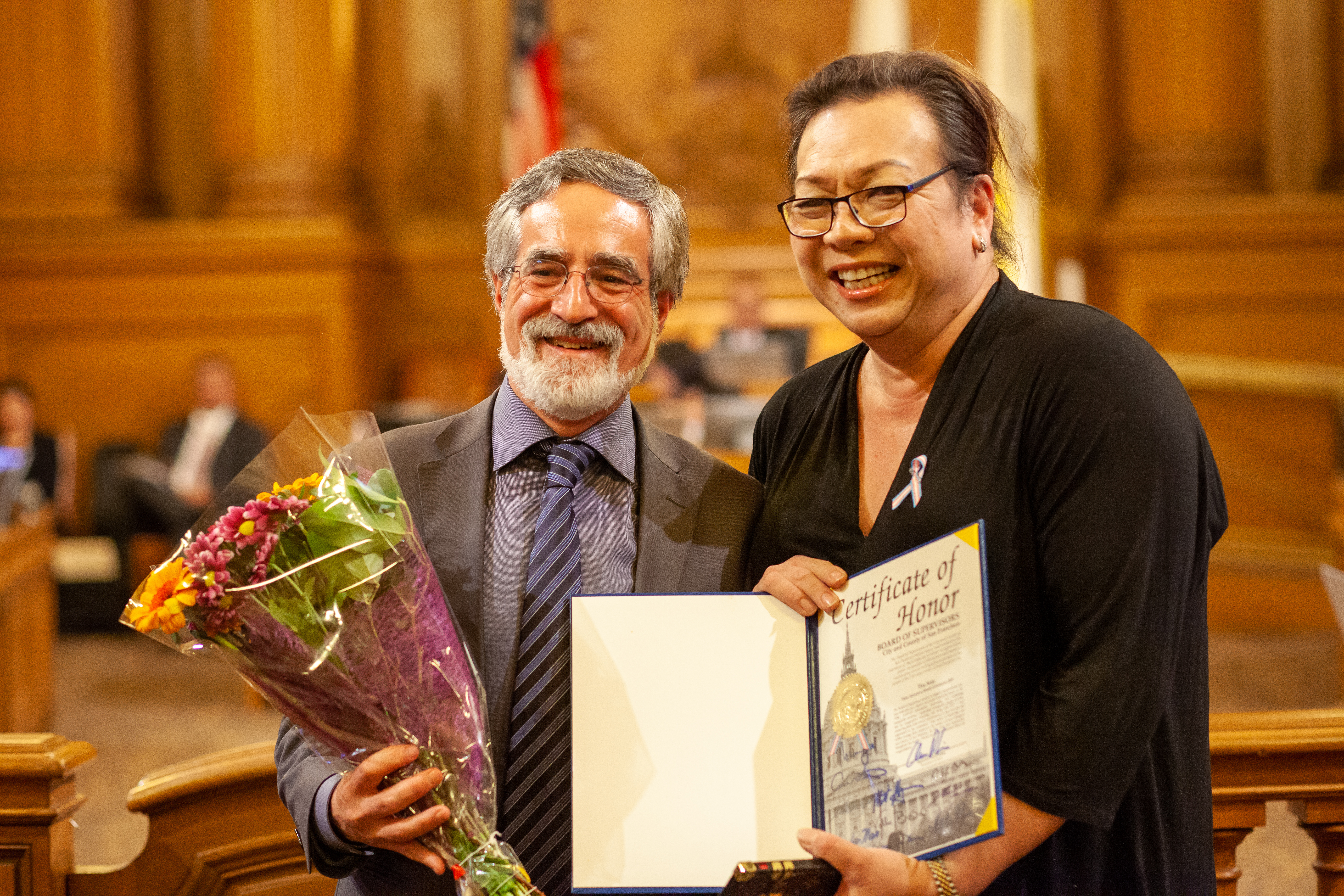 San Francisco Supervisor Aaron Peskin presents a certificate of honor and bouquet of flowers to Tita Aida at a Board of Supervisors meeting during Transgender Awareness Week.